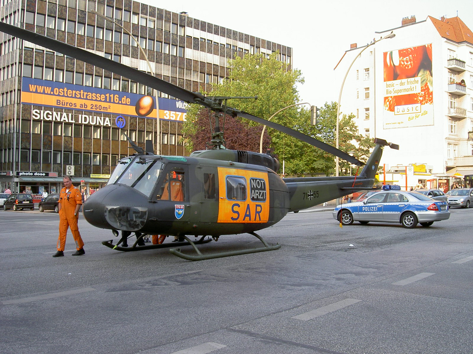 A Bell UH-1D SAR helicopter of the 63rd Air Transport Wing (Lufttransportgeschwader 63) of the German Air Force. It is seen here during a rescue operation, landed on the intersection of Osterstraße and Heußweg in Hamburg, Germany.